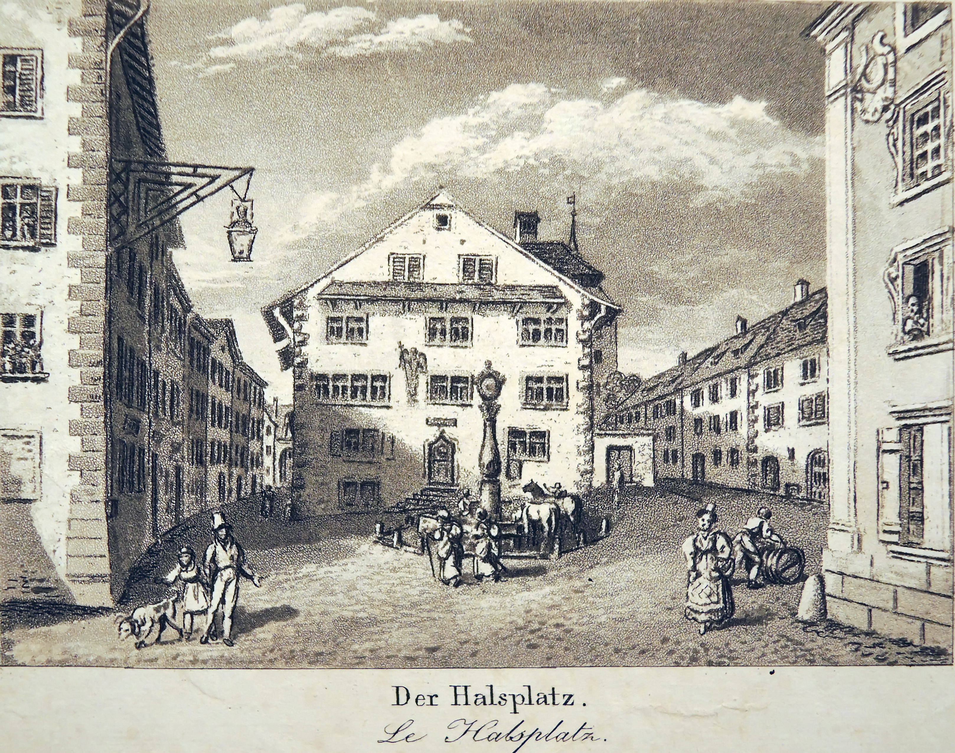 Collection of the Stadtmuseum) in Rapperswil (Switzerland)